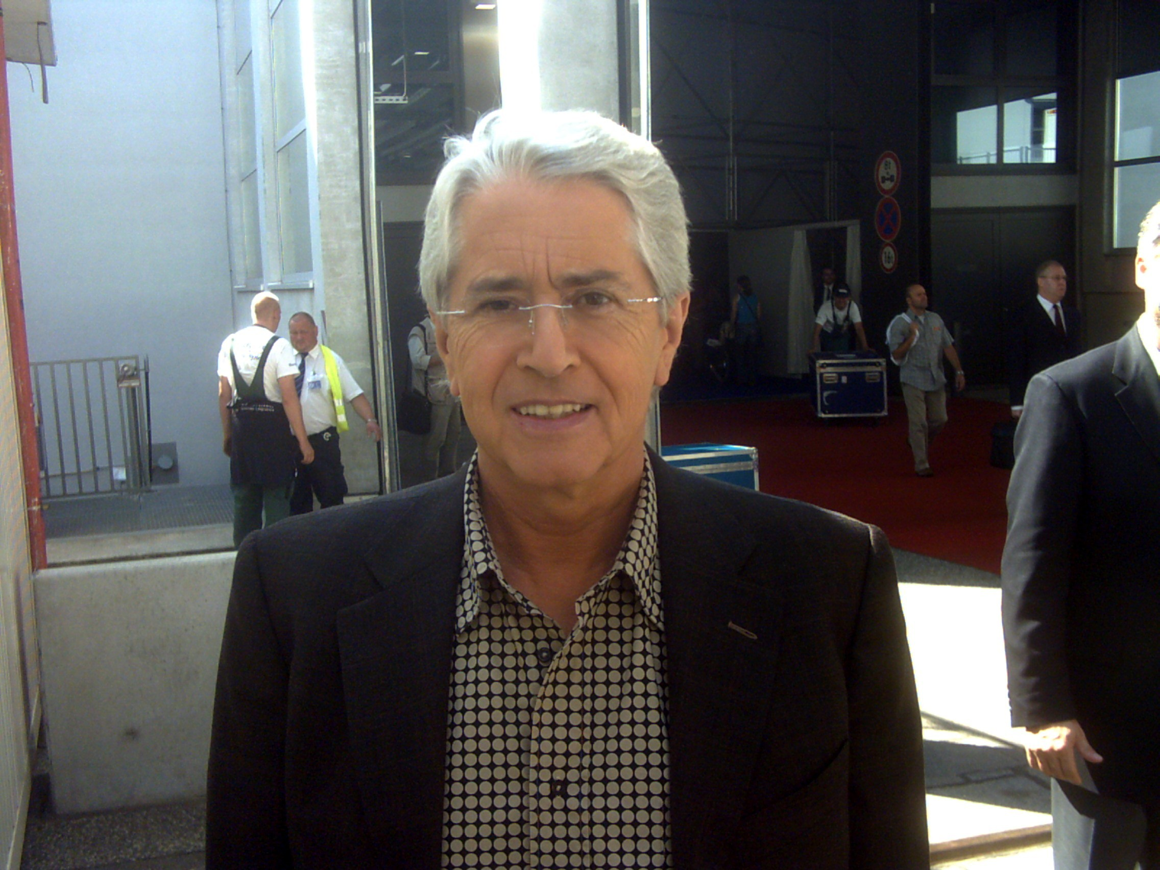 This picture shows the German TV Presenter Frank Elstner. The picture was taken by me (Thomas Richter/user:THOMAS) at the IFA 2005 in Berlin. Everybody may use it under GFDL.